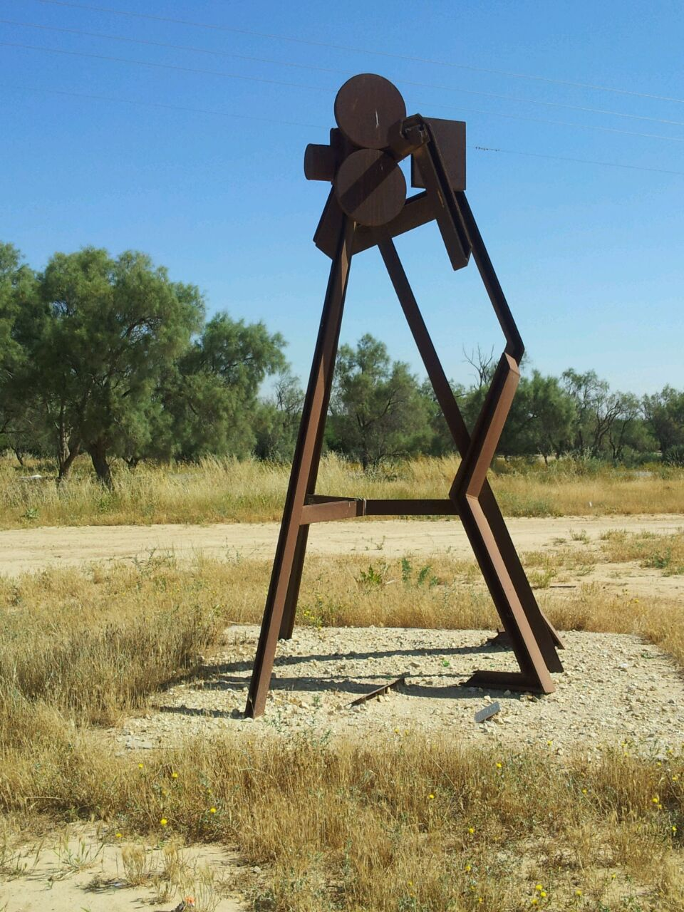 The statue "Taking pictures" ("Temunot"), by David Gavrieli, Sculptures Road in Hazerim, The Negev, Israel